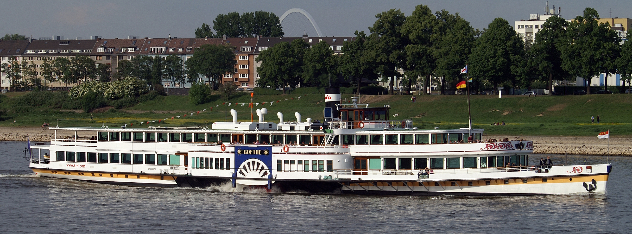 Paddle steamer Goethe on sightseeing tour in Cologne.